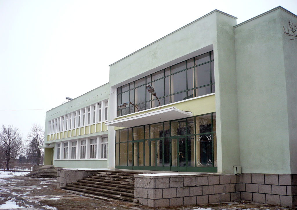 Community center in village Altimir, Bulgaria.